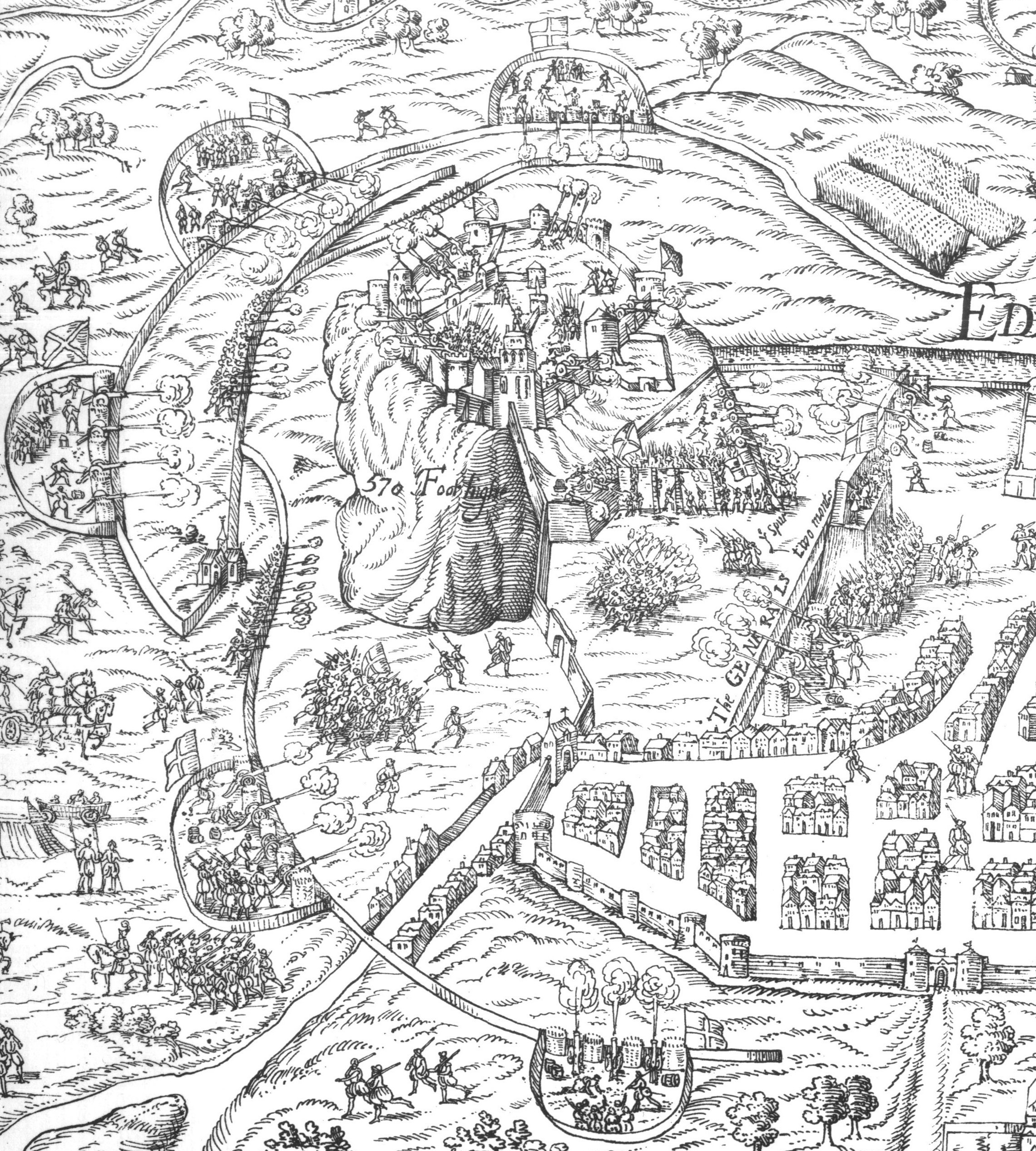 Detail from an old woodcut of Edinburgh Castle during the 'Lang Siege' (May 1573) Our Queene [Elizabeth], at the request of hir cousin the yong King of Scottes, appoynted Sir William Drurie, knight marshal of Barwicke, to passe into Scotland with a thousande souldiours, and fiue hundred pioneers, and also certaine peeces of artillerie, to helpe by siege and force of canon to constrayne those that kepte the Castell of Edenbourgh agaynst the sayde King to yeelde the same into his handes. (...) Thus, by the valiant prowes and worthie policie of Sir William Drurie, our Queenes Maiesties Generall, and other the Captaines and souldiours vnder his charge, was that Castell of Edenbourgh wonne (...) which, by the common opinion of men, was esteemed impregnable, and not to bee taken by force; insomuche, as many thought, it tooke the name of Mayden Castle, for that it had not beene wonne at any tyme before, except by famine or practise, but suche is the force of the Canon in this age, that no fortresse, be it neuer so strong, is able of it selfe to resyst the puyssaunce thereof, if the situation be of that nature, as the grounde aboute it will serue to conuey the great artillerie to bee planted in batterie agaynst it. -- Thomas Churchyard [?], Journal of the Siege of the Castle of Edinburgh, 1573, reprinted in The Book Of The Old Edinburgh Club, vol. xvi 1928 This image is annotated on its description page.